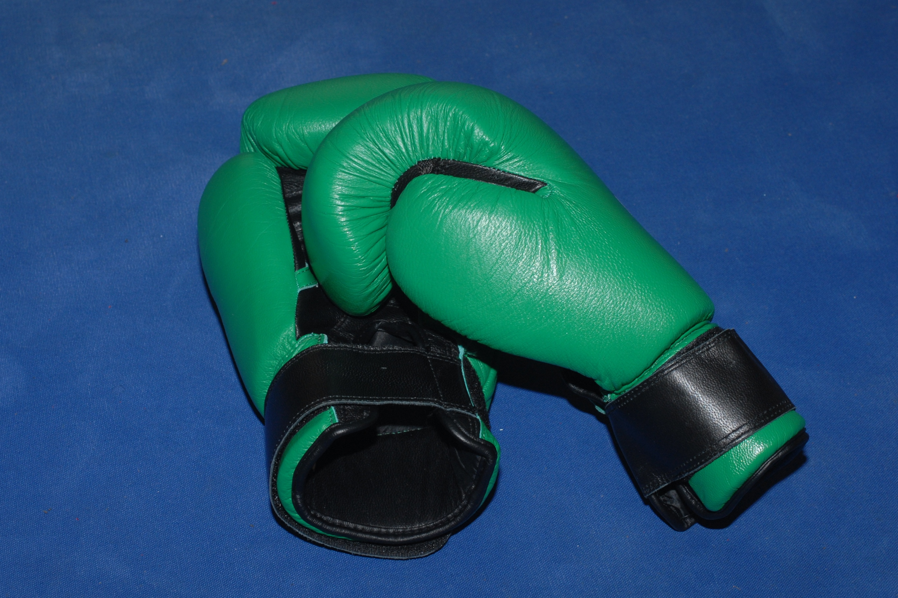 Boxing gloves